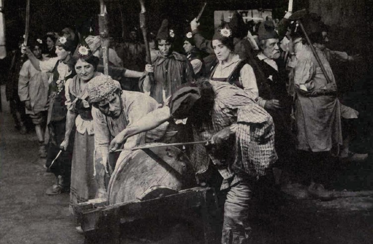 Still from the American film A Tale of Two Cities (1911), directed by William Humphrey and starring Maurice Costello and Florence Turner. Still published in David S. Hulfish, Cyclopedia of Motion-Picture Work (1914).